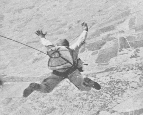 Japanese army paratrooper jumps out of an airplane in World War II.